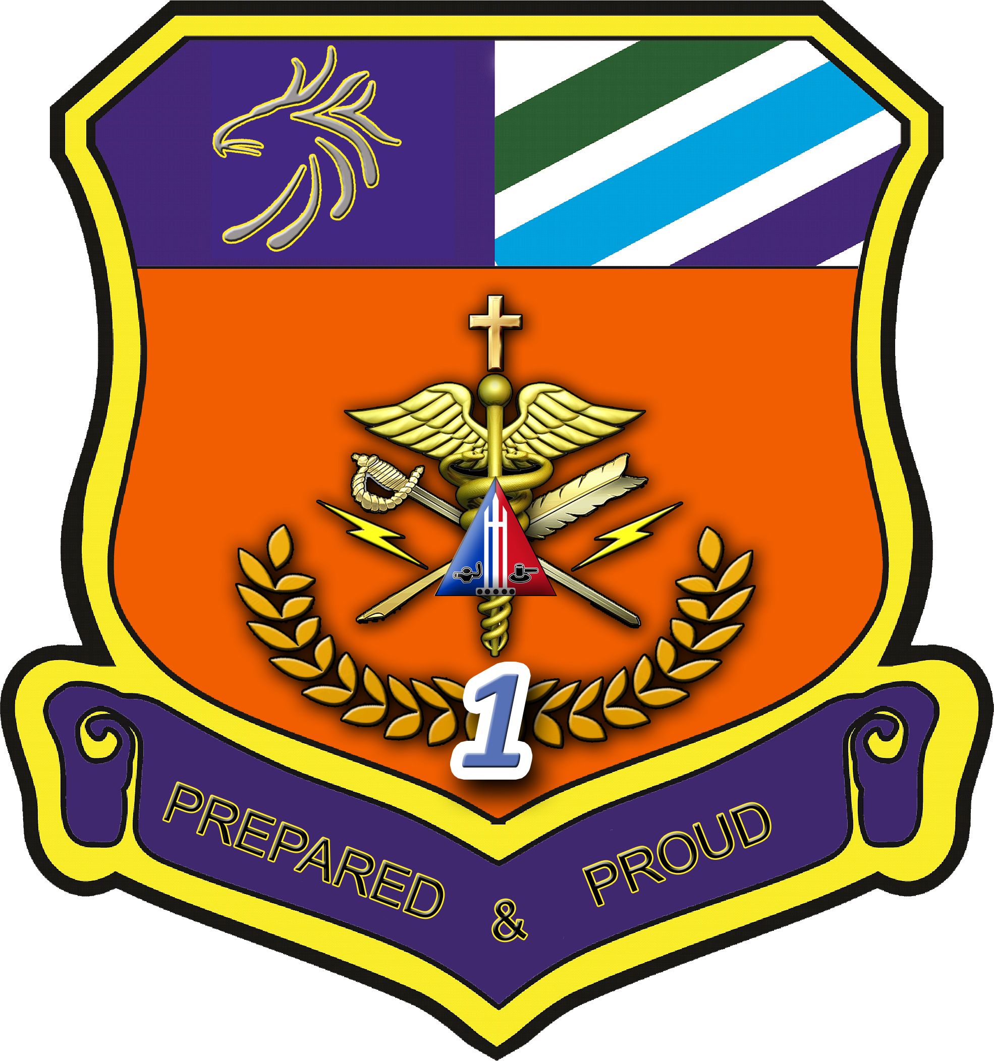 Unit seal of the 1st Technical & Administrative Services Battalion (Ready Reserve).